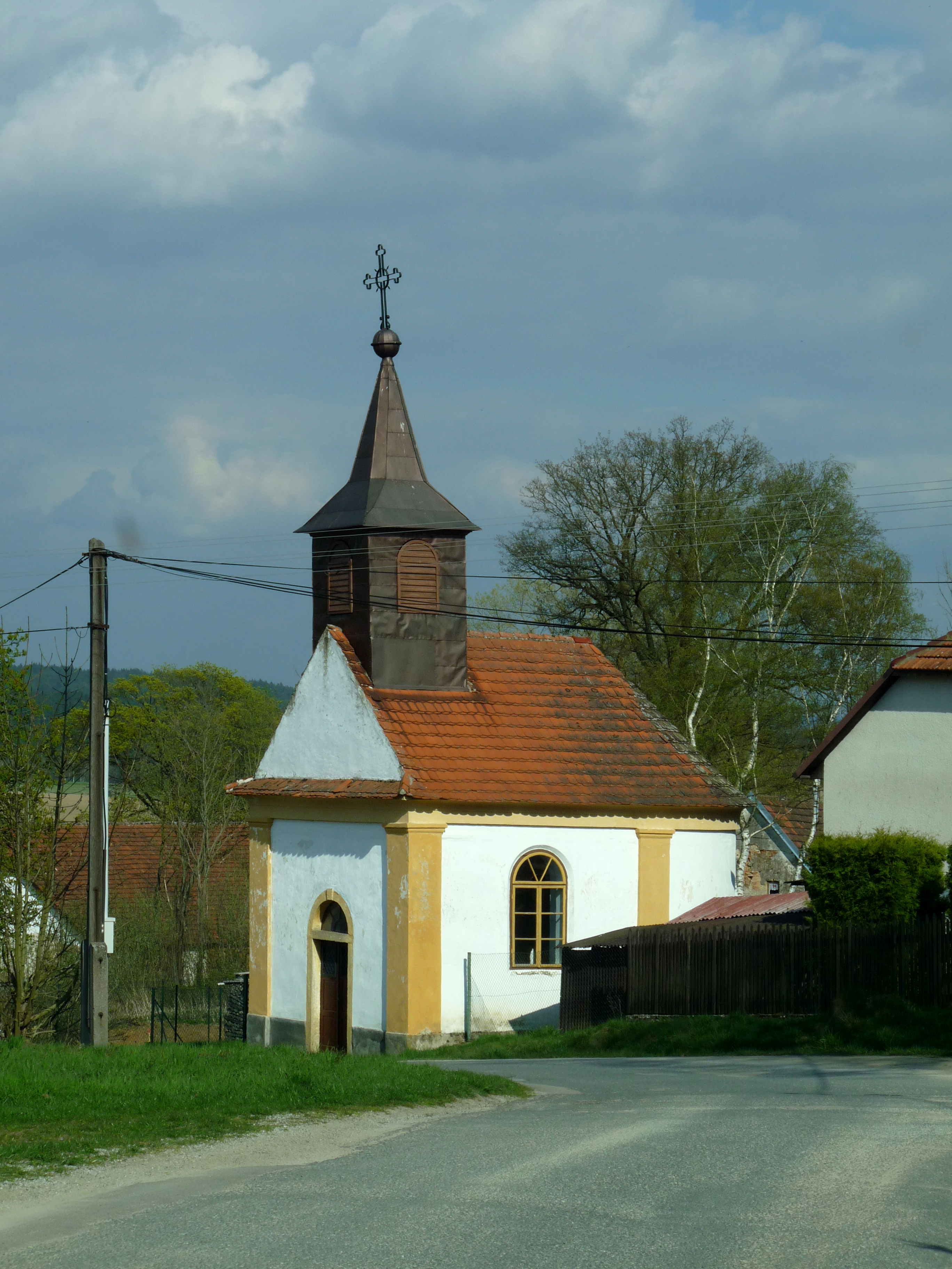 Chapel in the village of Vlčetínec, Jindřichův Hradec District, South Bohemian Region, Czech Republic.